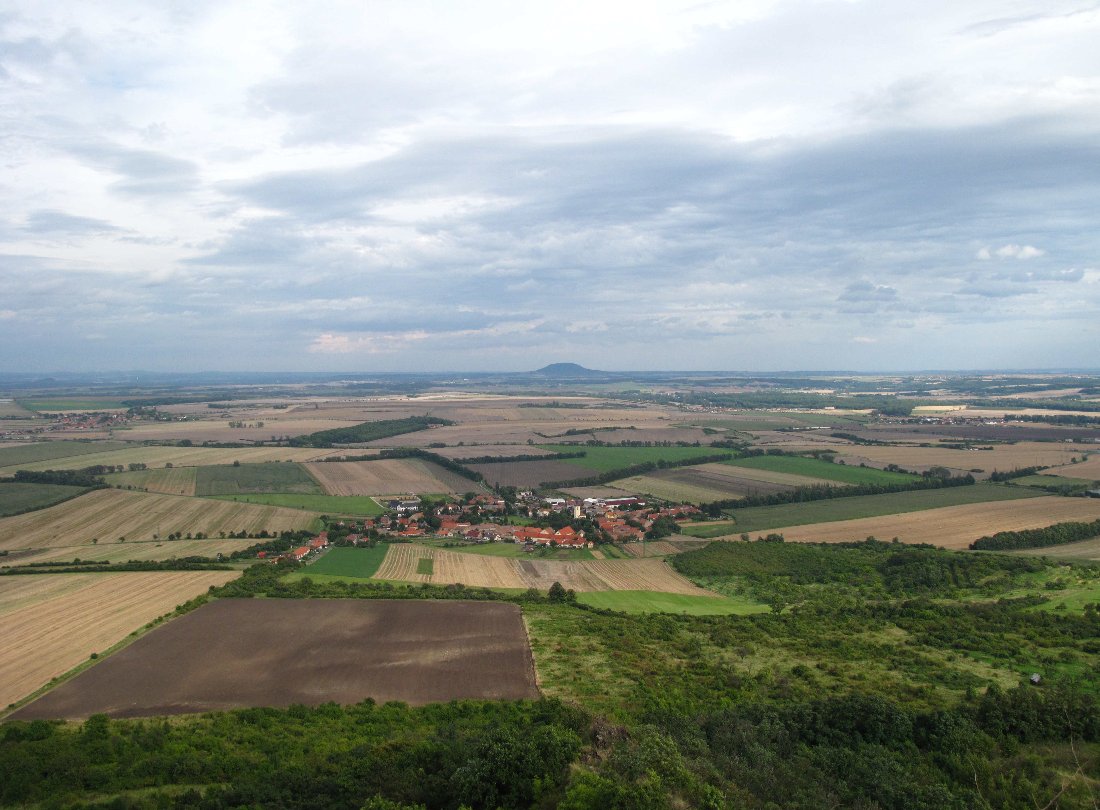 Slatina village an Řip hill on the horizon as seen from Hazmburk Castle (ruin), Litoměřice District, Czech Republic.